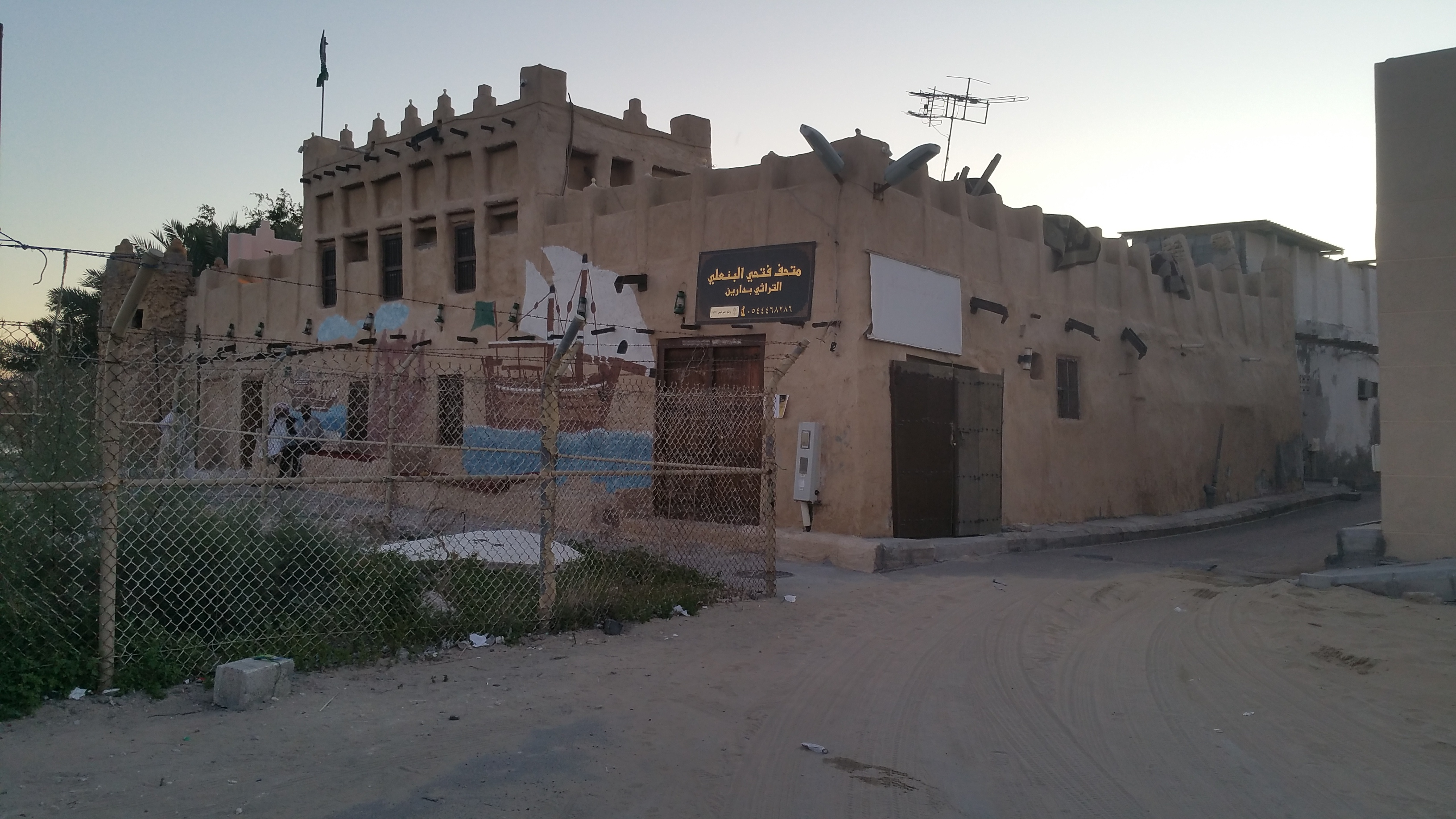 A picture of Darin Museum, located on the east of Darin.